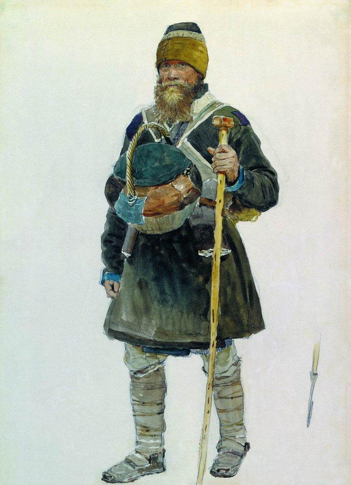 Pilgrim. Study. Watercolour on paper. State Tretyakov Gallery, Moscow.